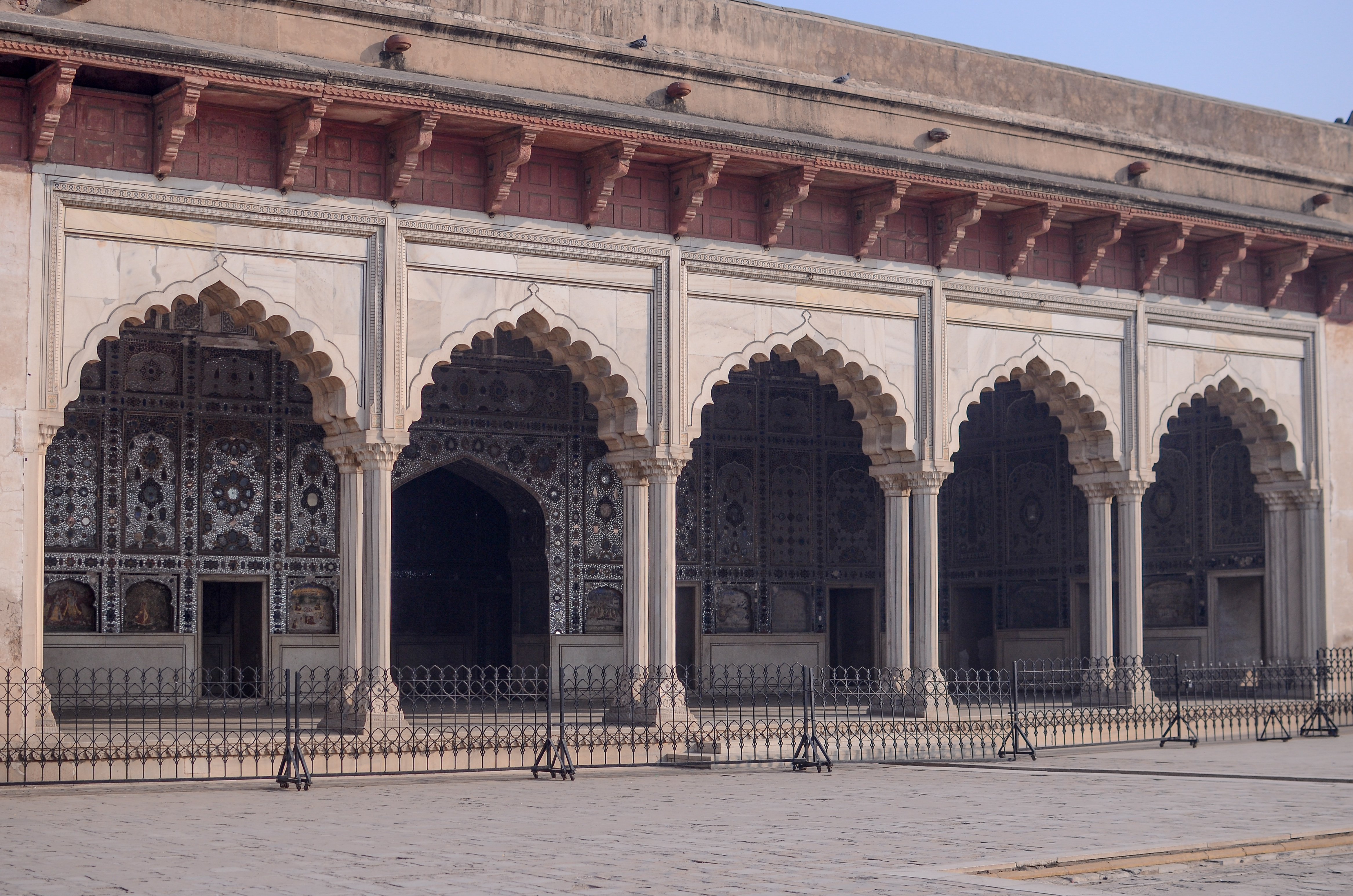 Lahore Fort complex (including Moti Masjid, Naulakha Pavilion, Sheesh Mahal and others) This is a photo of a monument in Pakistan identified as the PB-67